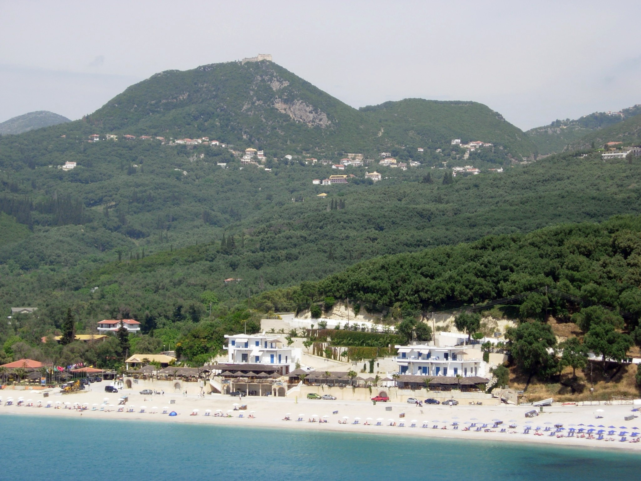 Valtos beach at Parga. In the background the fortress of Ali Pasha.